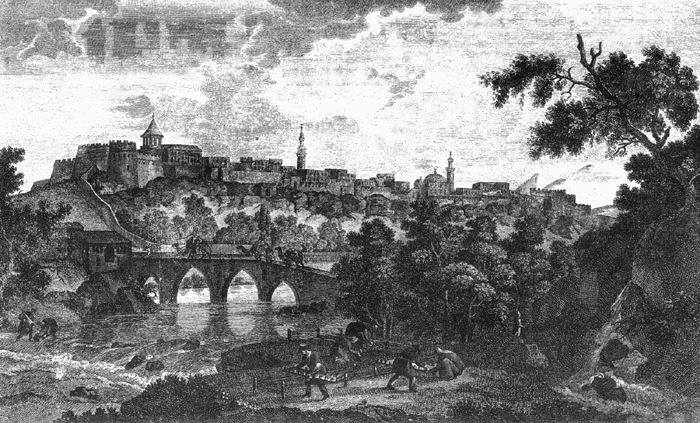 View of Erevan in 1796 by G. Sergeevich. Courtesy of Aram Arkoun.